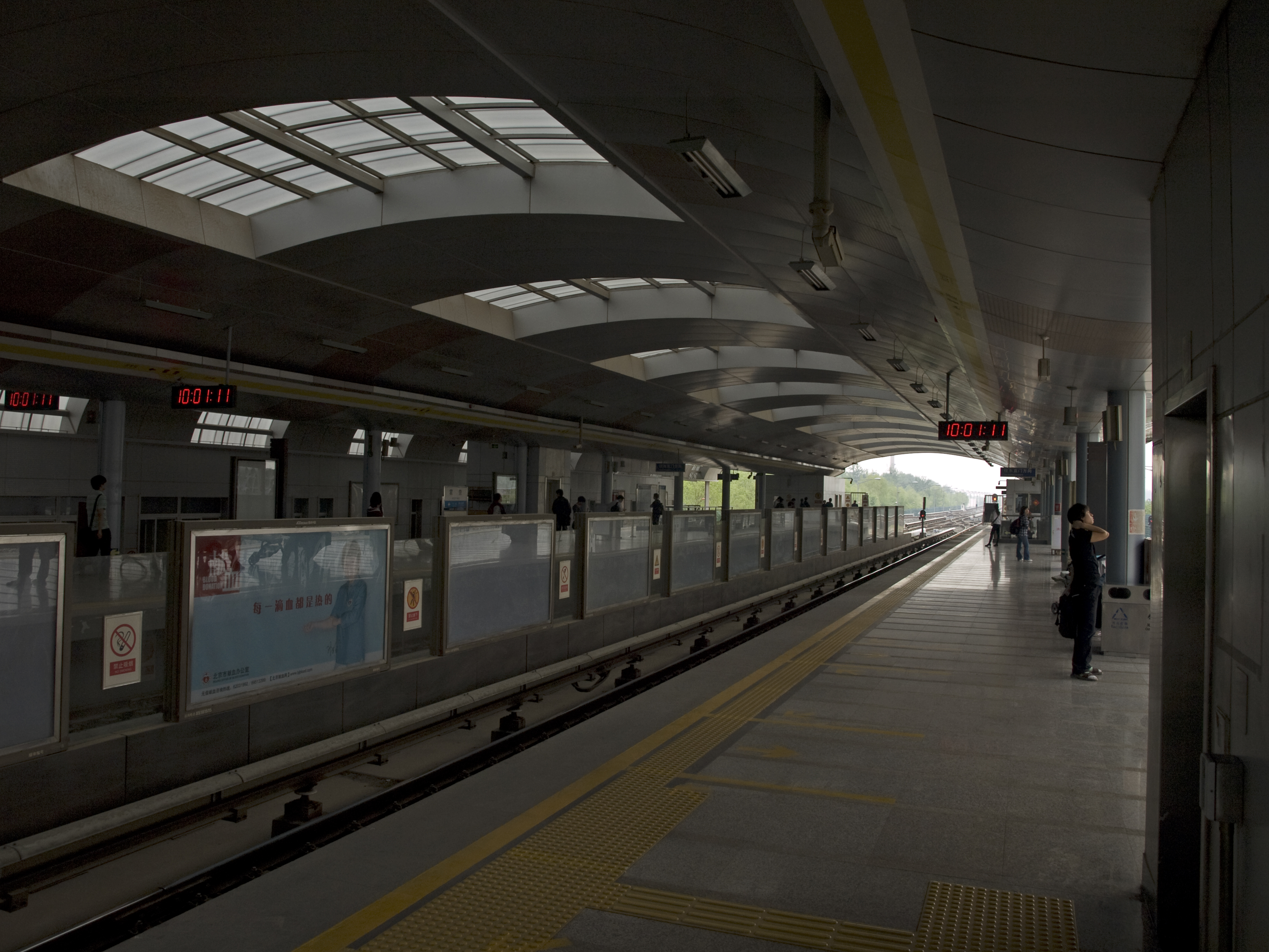 Huoying station, Beijing Subway